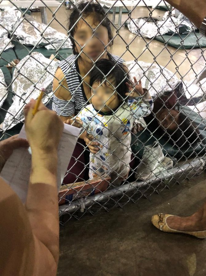 Woman-and-toddler migrants detained at the Ursula detention center in McAllen, Texas, the United States.